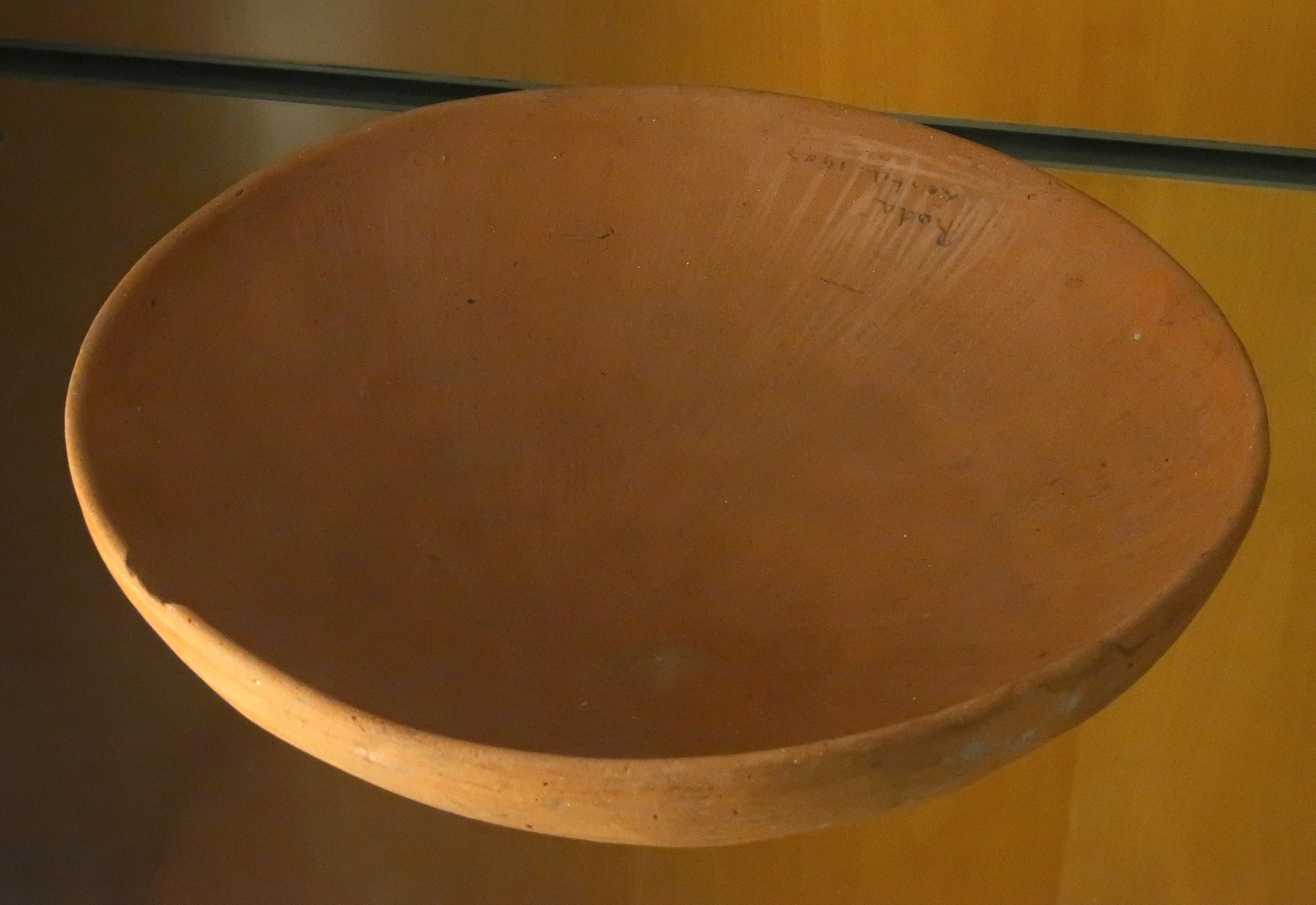 Cup. Thinite period. Terracotta (with a potter's wheel), D. 26.1 cm. Brand: "Rhoda" (Rhoda Island?). Lyon Museum of Fine Arts. Accession number H 2430